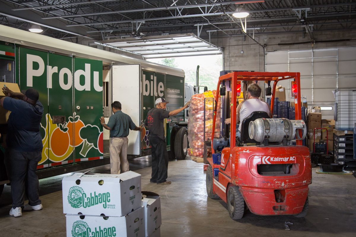 This is a picture of the Producemobile. The Producemobile is a mobile program started in 2001 as a way to distribute fresh produce to neighborhoods in need.